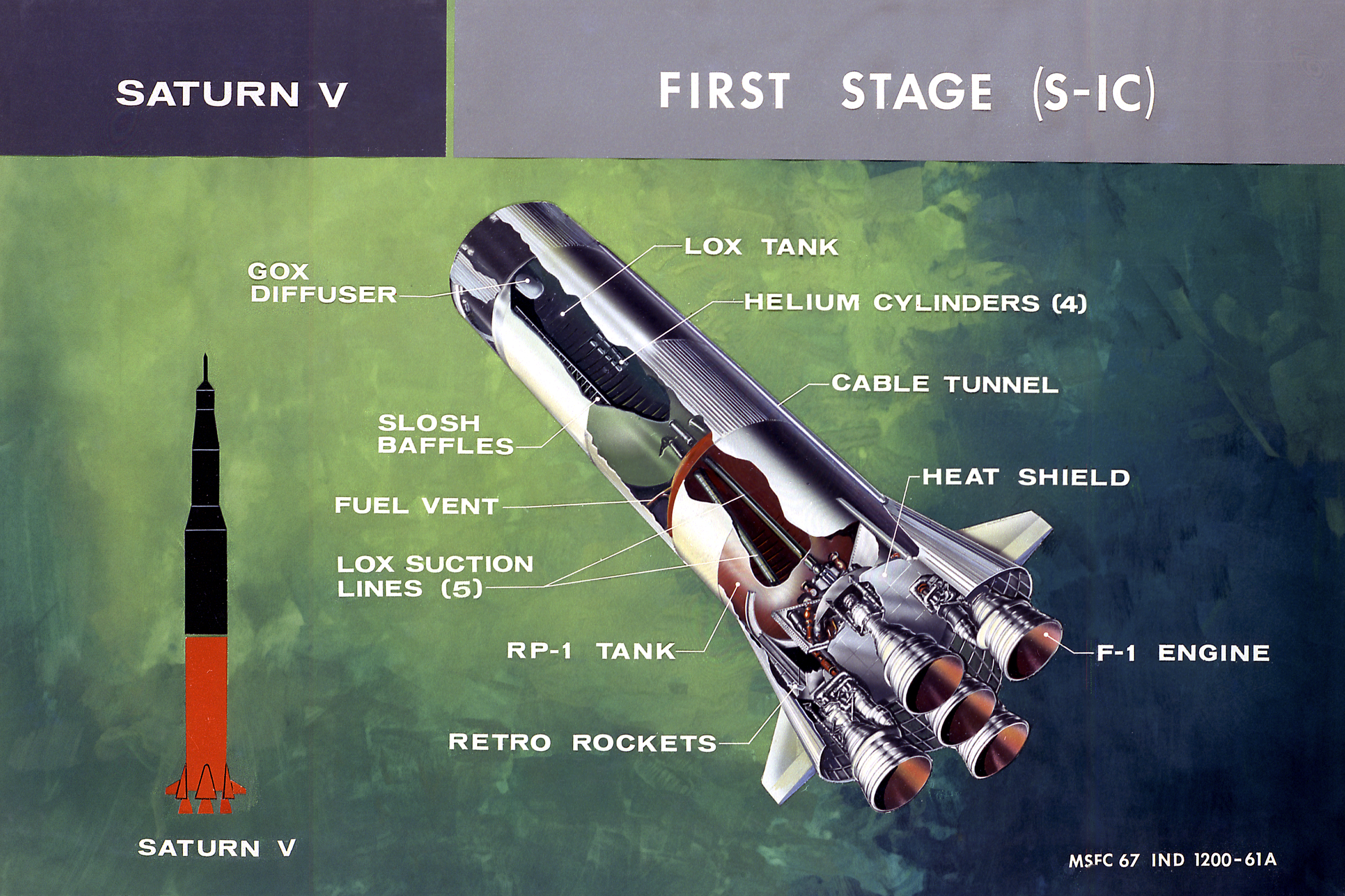 This illustration shows a cutaway drawing with callouts of the major components for the S-IC (first) stage of the Saturn V launch vehicle. The S-IC stage is 138 feet long and 33 feet in diameter, producing more than 7,500,000 pounds of thrust through five F-1 engines powered by liquid oxygen and kerosene. Four of the engines are mounted on an outer ring and gimball for control purposes. The fifth engine is rigidly mounted in the center. When ignited, the roar produced by the five engines equals the sound of 8,000,000 hi-fi sets.